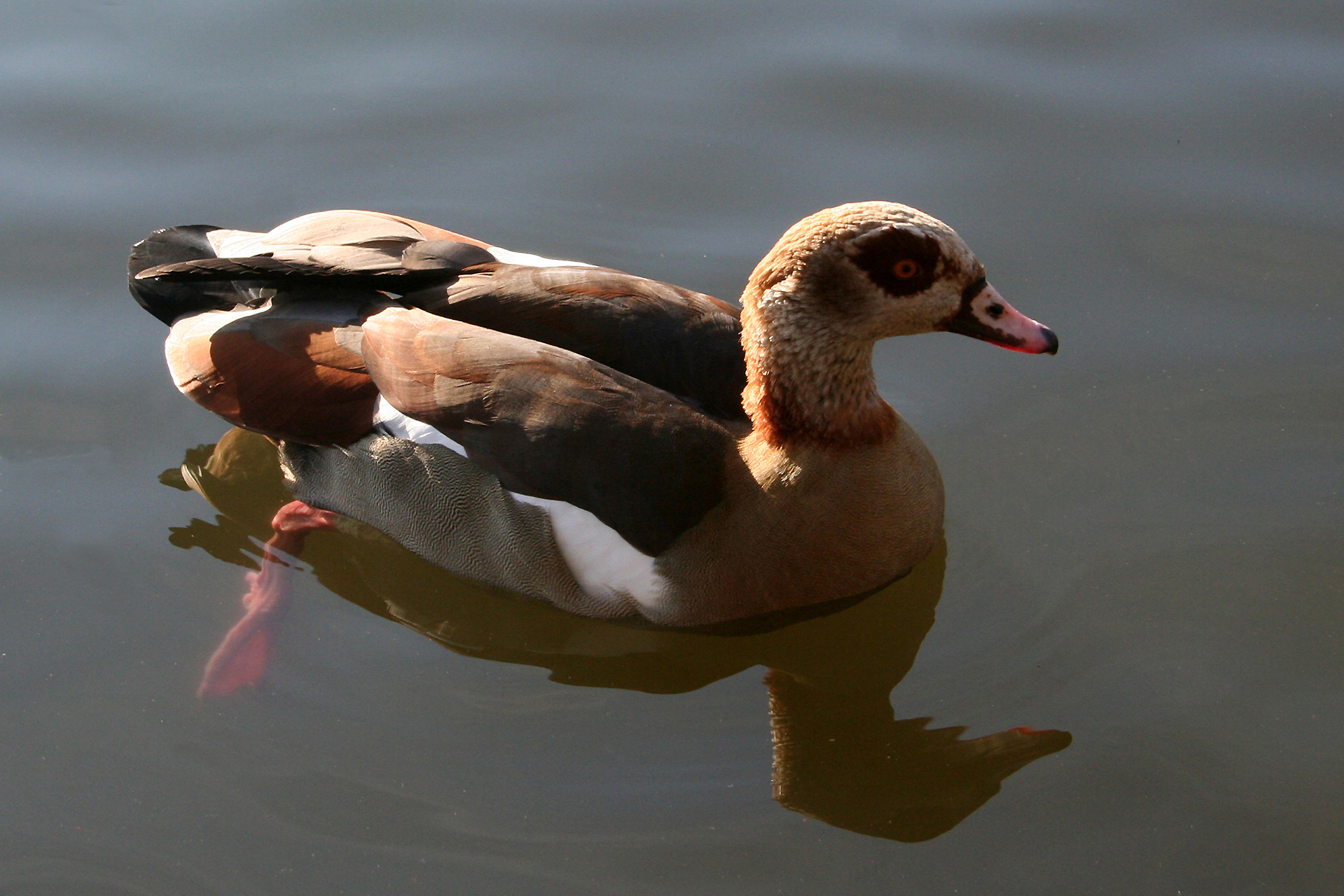 Egyptian Goose